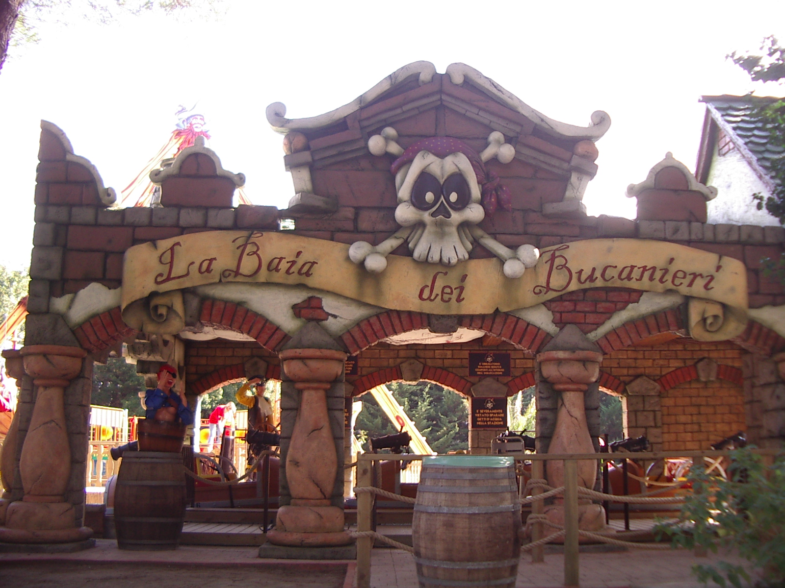 This is the station of Baia dei Bucanieri